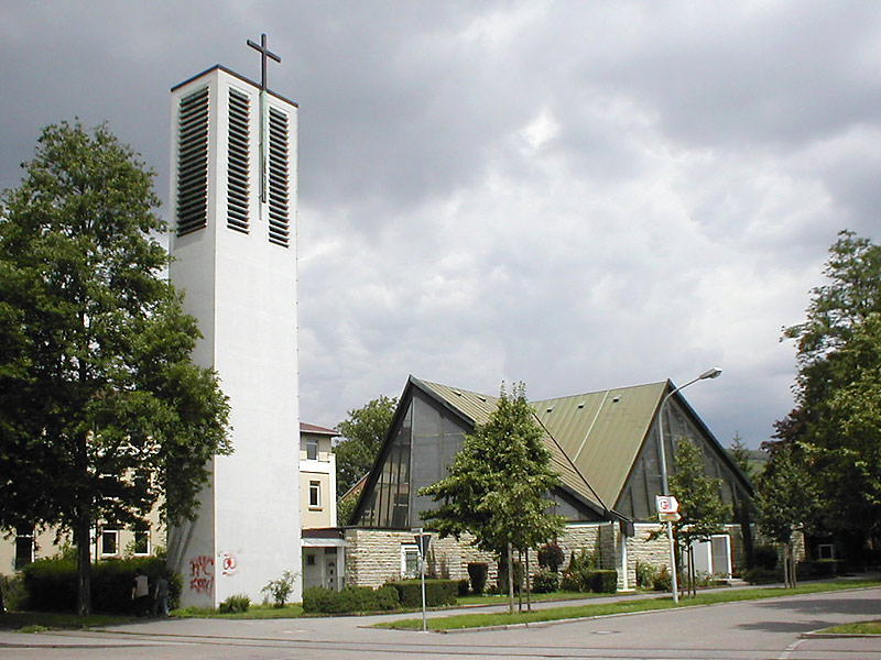 Aukirche in Heilbronn. Design: Architect Gustav Kistenmacher, 1957. Greek orthodox comunity of St. Konstantin and Helena